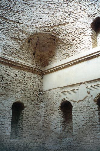 An early example of squinch in the Sassanid Palace of Ardeshir. Firouzabad, Fars Province, Iran.